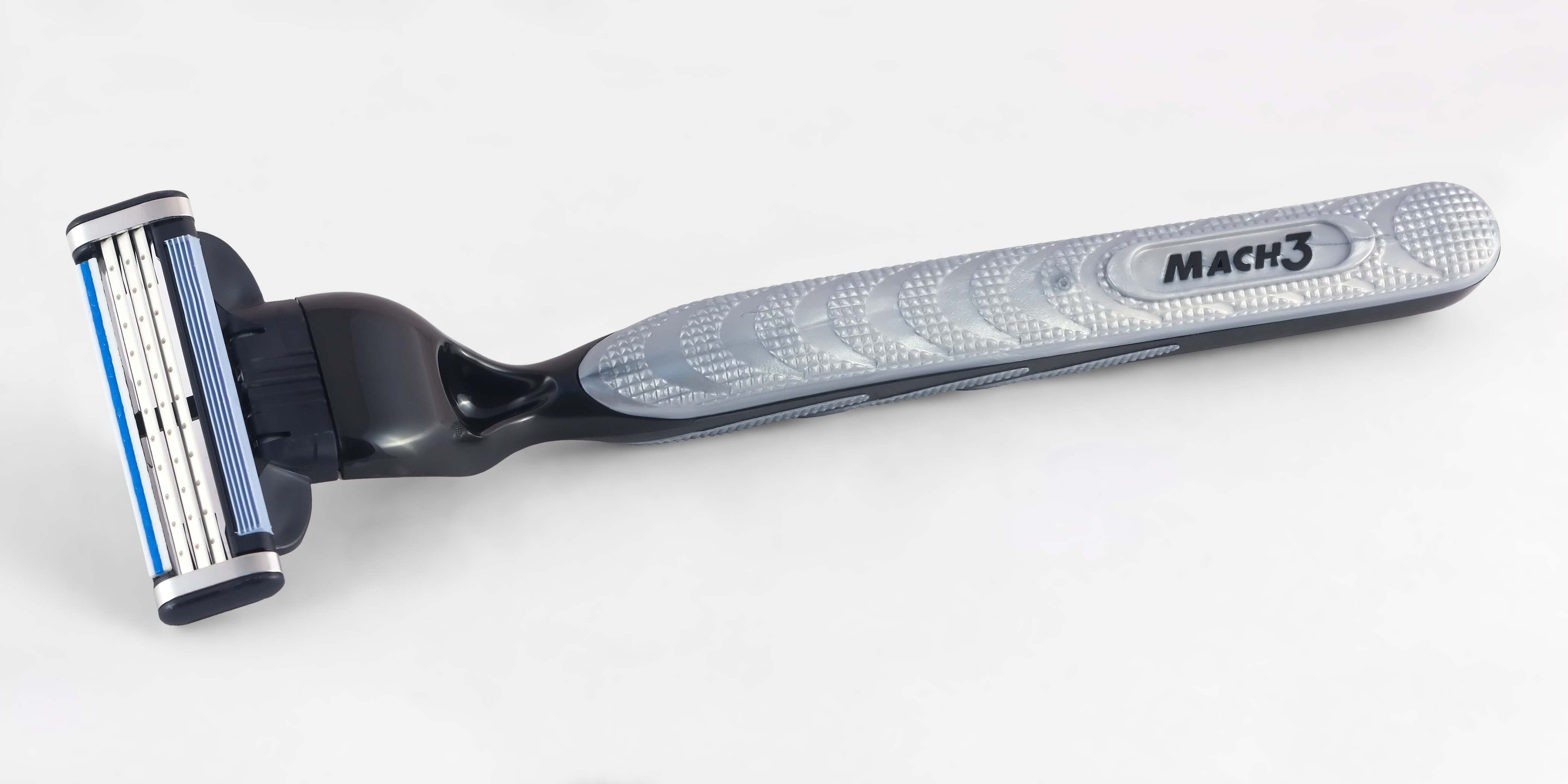 Gillette Mach3 razor from Indonesia, 2015-08-03. Focus stack of 4 images